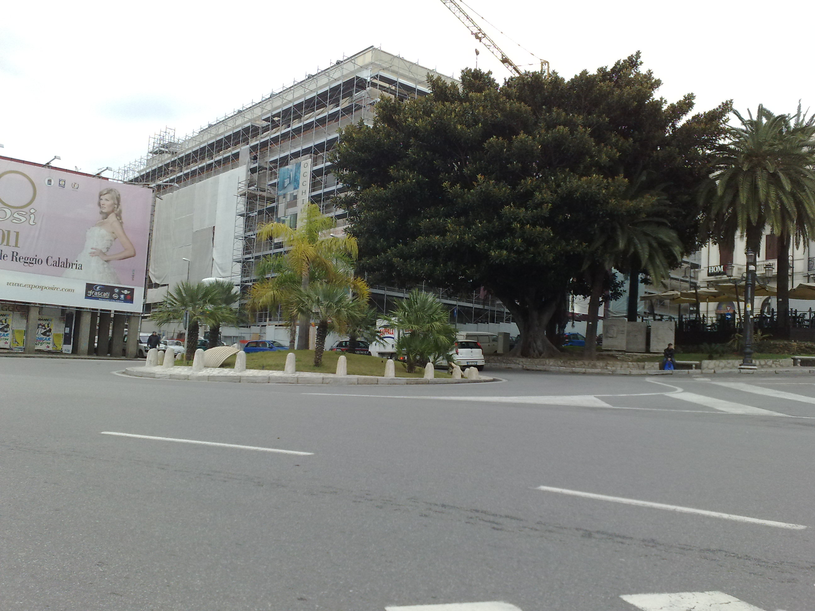 Indipendent's Square